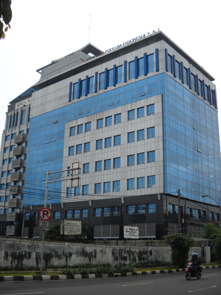 Persada Indonesia YAI University, Jakarta, Indonesia